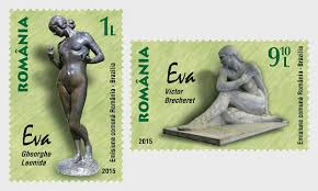 Romanian stamps (2015) with sculpter 'eva' from Romanian Gheorghe Leonida and sculpture 'eva' by Brazilian Victor Brecheret